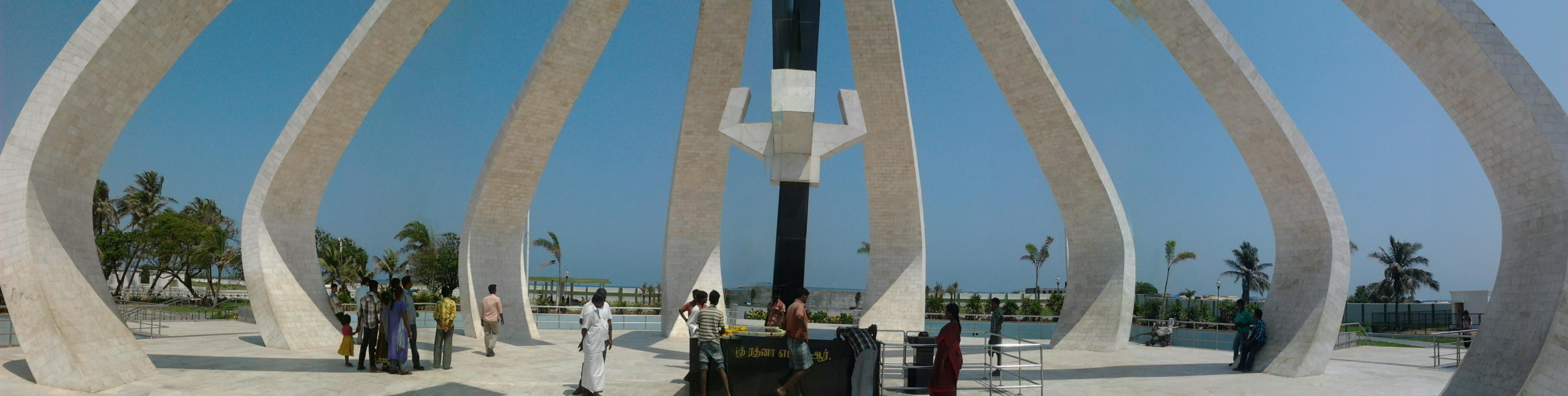 A panoramic view of the MGR Memorial, Chennai